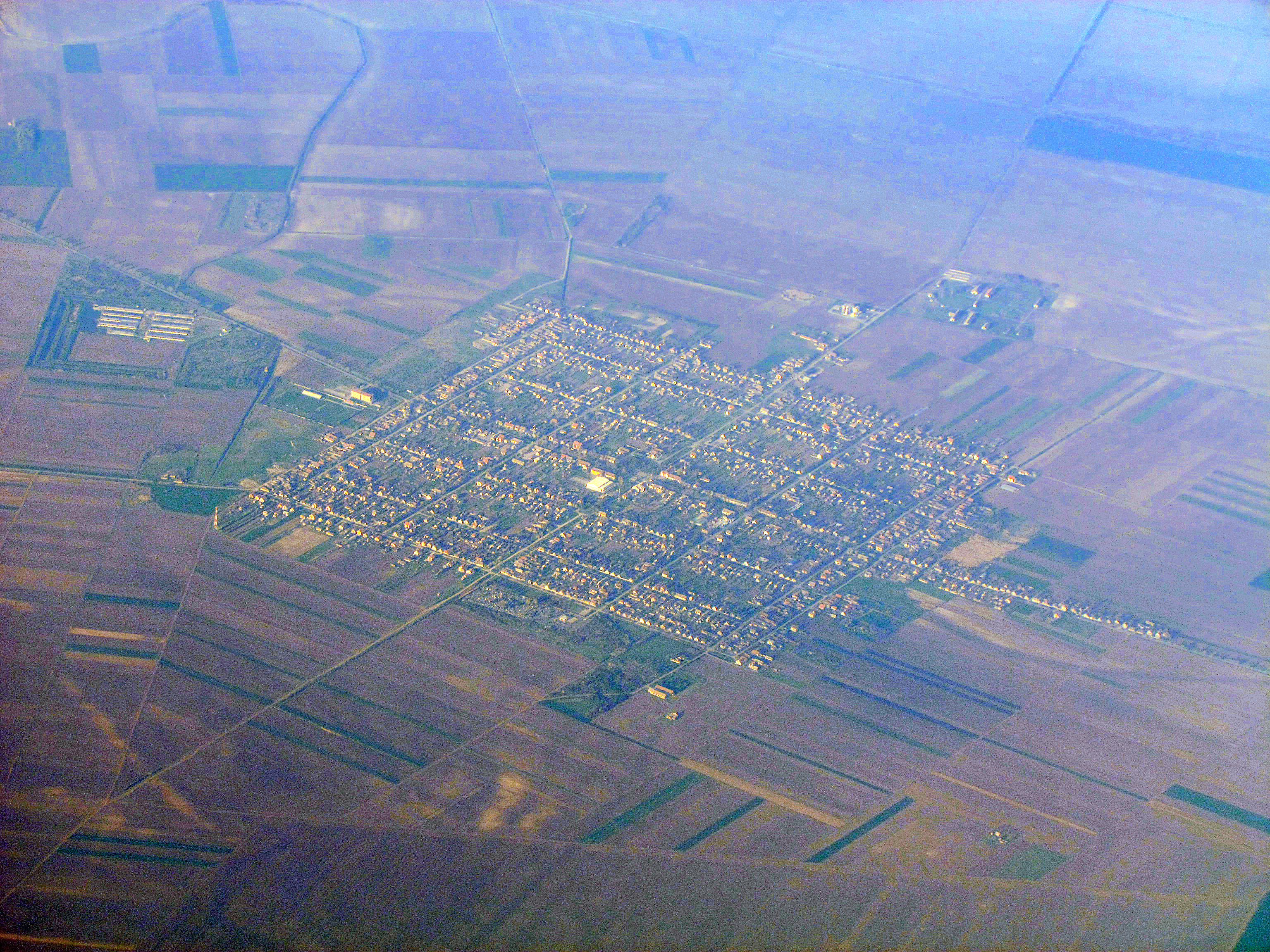 Backo Dobro Polje, North Serbia (settlement in vicinity of Novi Sad)